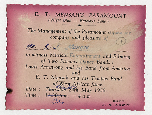 An invitation to E. T. Mensah's performance with Louis Armstrong in May 1956